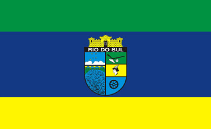 Flag of Rio do Sul city, located in the state of Santa Catarina, Brazil